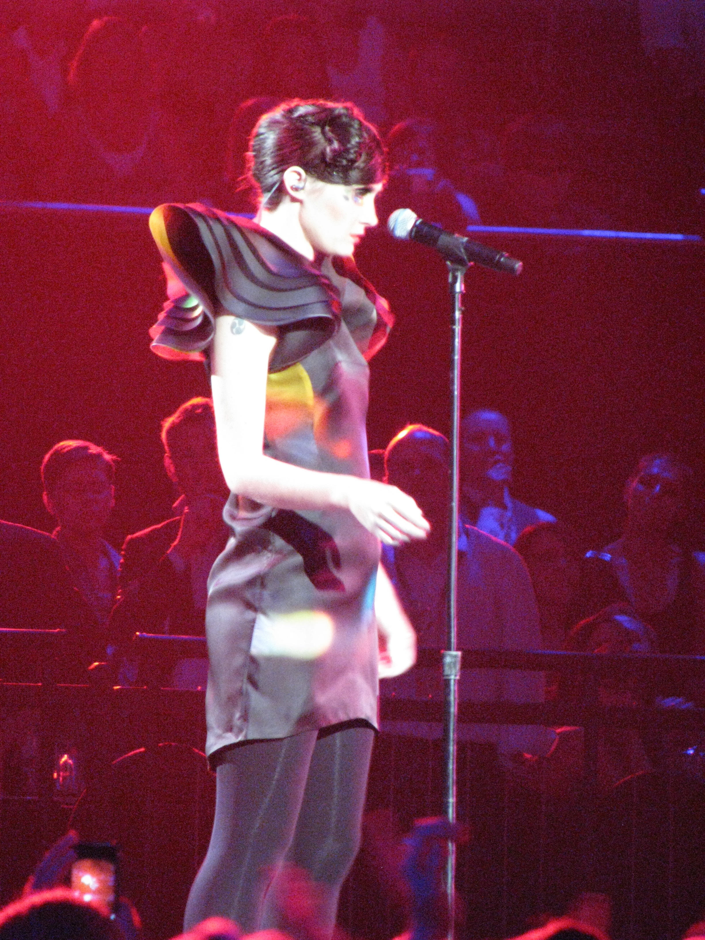 Sarah Blasko performing at ARIA Music Awards ceremony, Acer Arena, Sydney, Australia on 26 November 2009.